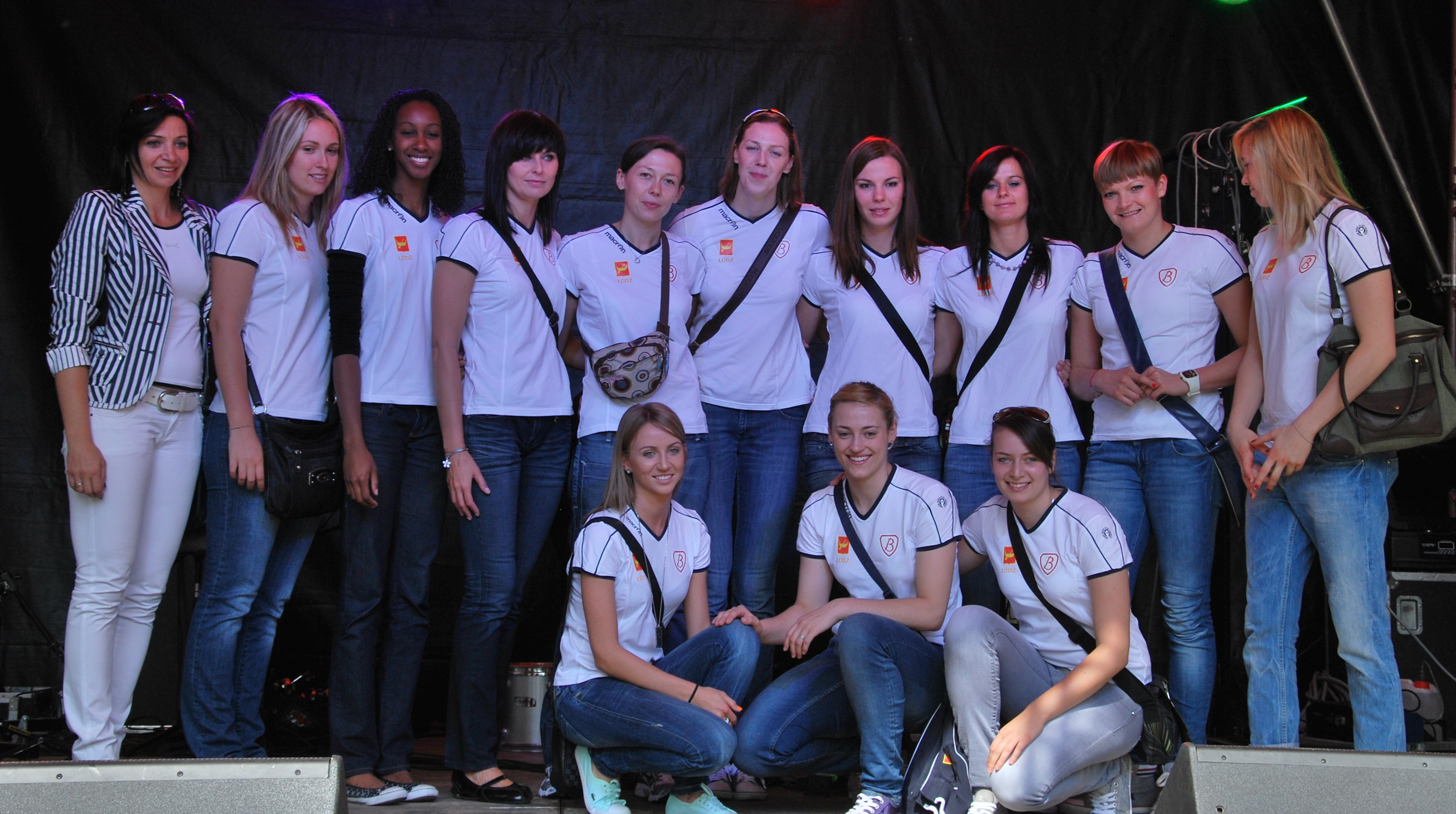 Organika Budowlani Łódź, team presentation before 2011/12 season. Łódź Piotrkowska Street